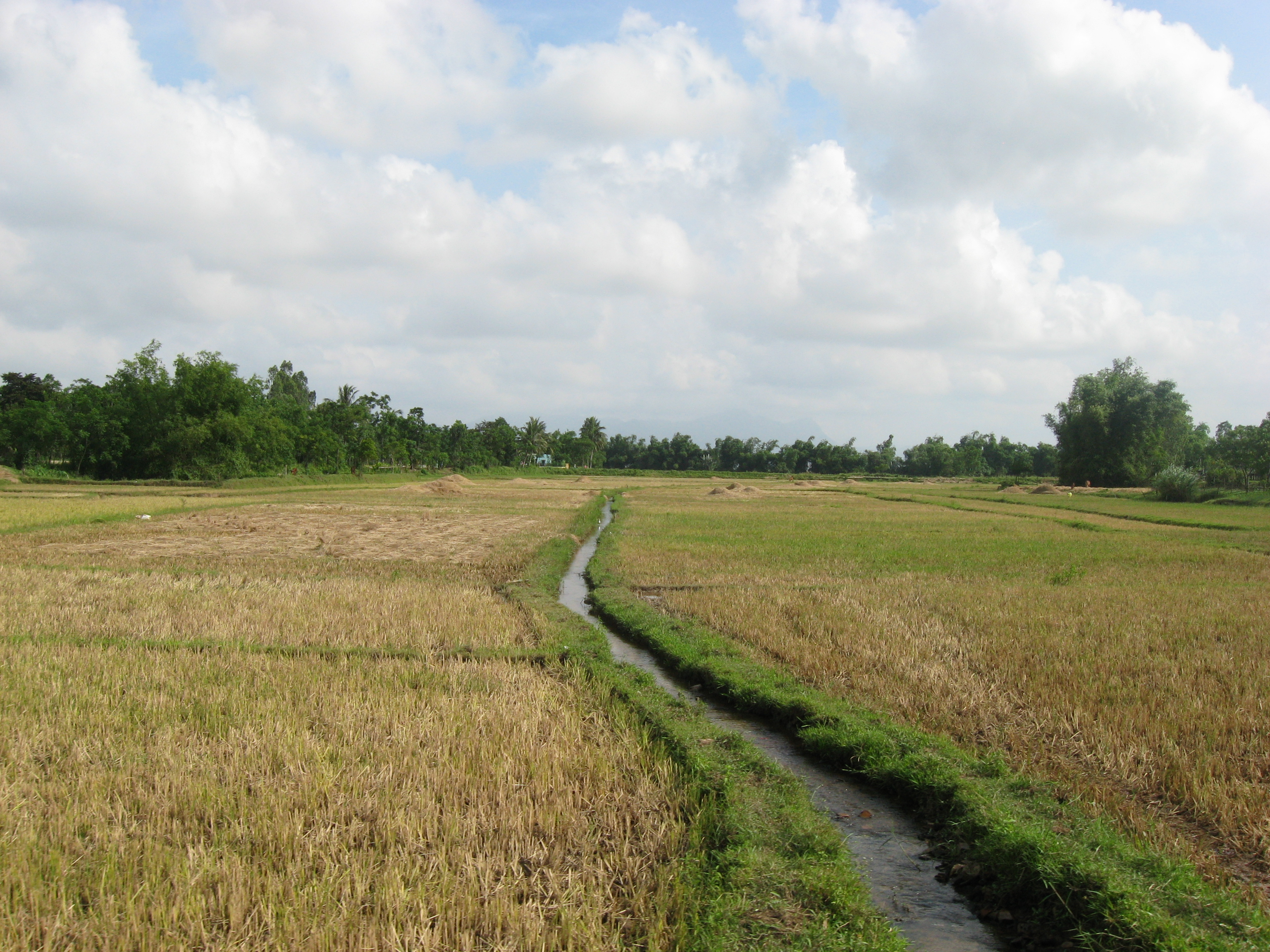 A stream cuts through a field in Dien Ban, Quang Nam Province, Vietnam.